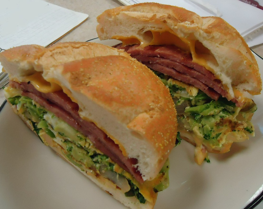 Sandwich at Goodman's delicatessen in Berkeley Heights, New Jersey. It featured Taylor ham, broccoli, spinach, omelet, and cheese. This is not one of their regular sandwiches; the cook prepared it especially for me when I reeled off a list of vegetables that I liked.